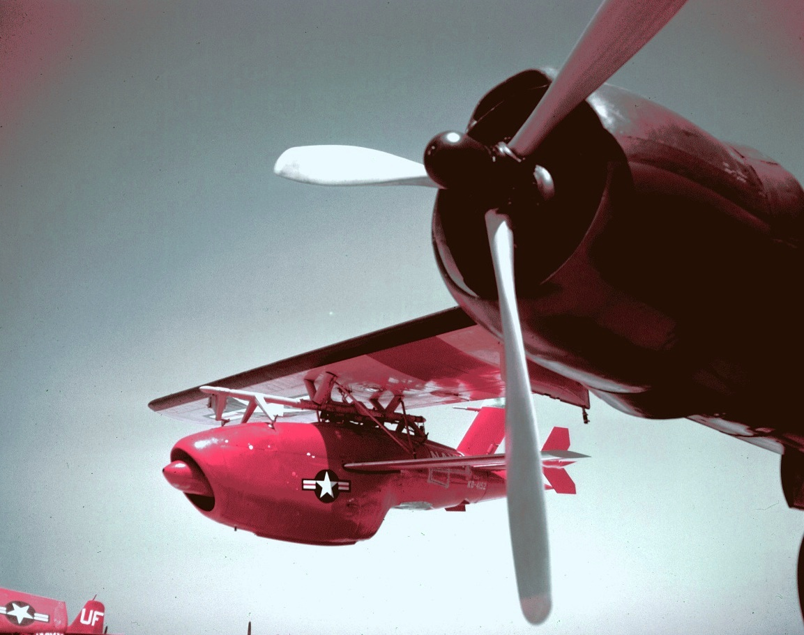 Ryan KDA Firebee target drone under the wing of a Douglas JD-1 Invader control aircraft.